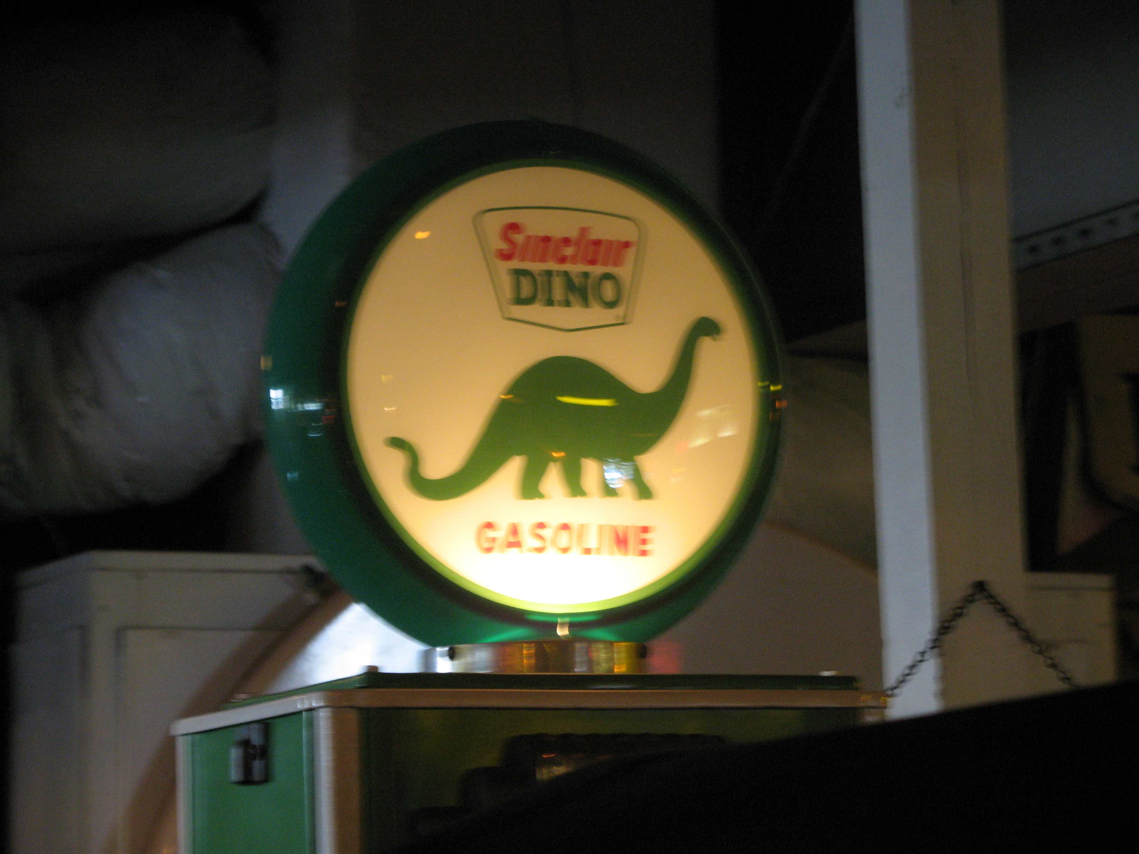 Sinclair Dino gas pump, Ragtops car museum, west palm beach